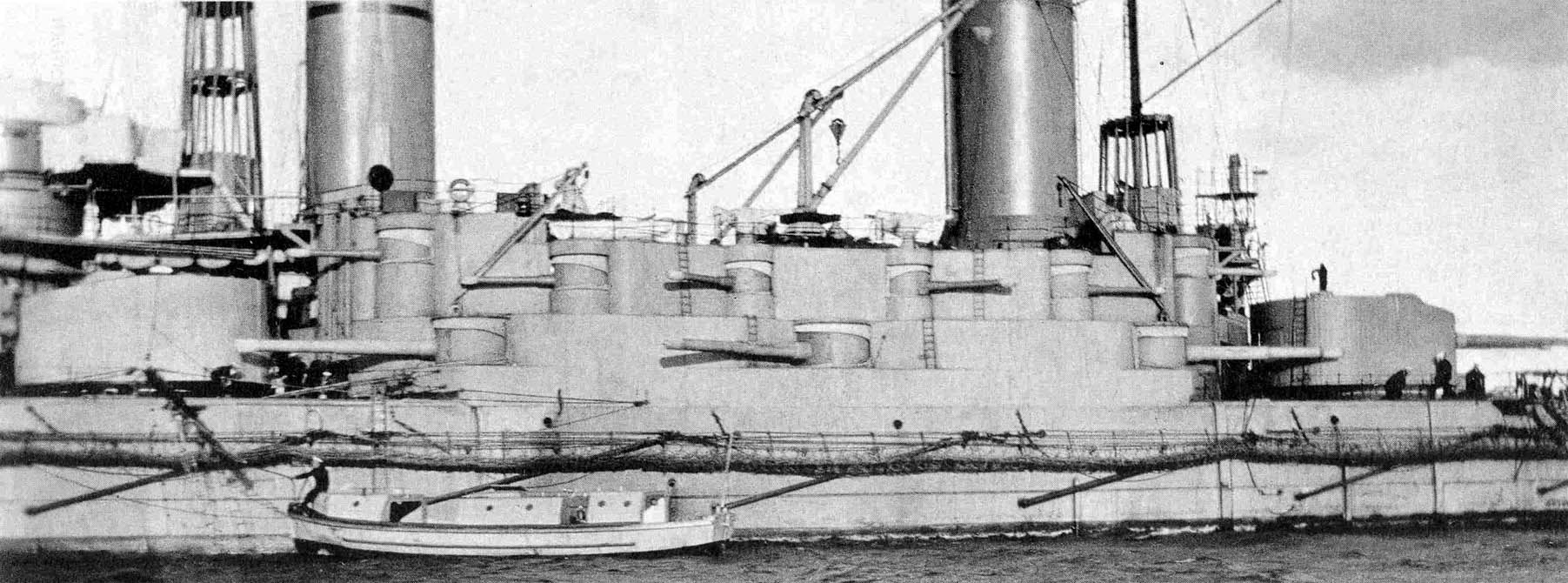 Imperial Russian battleship Andrei Pervozvannyi, Augst 1914.